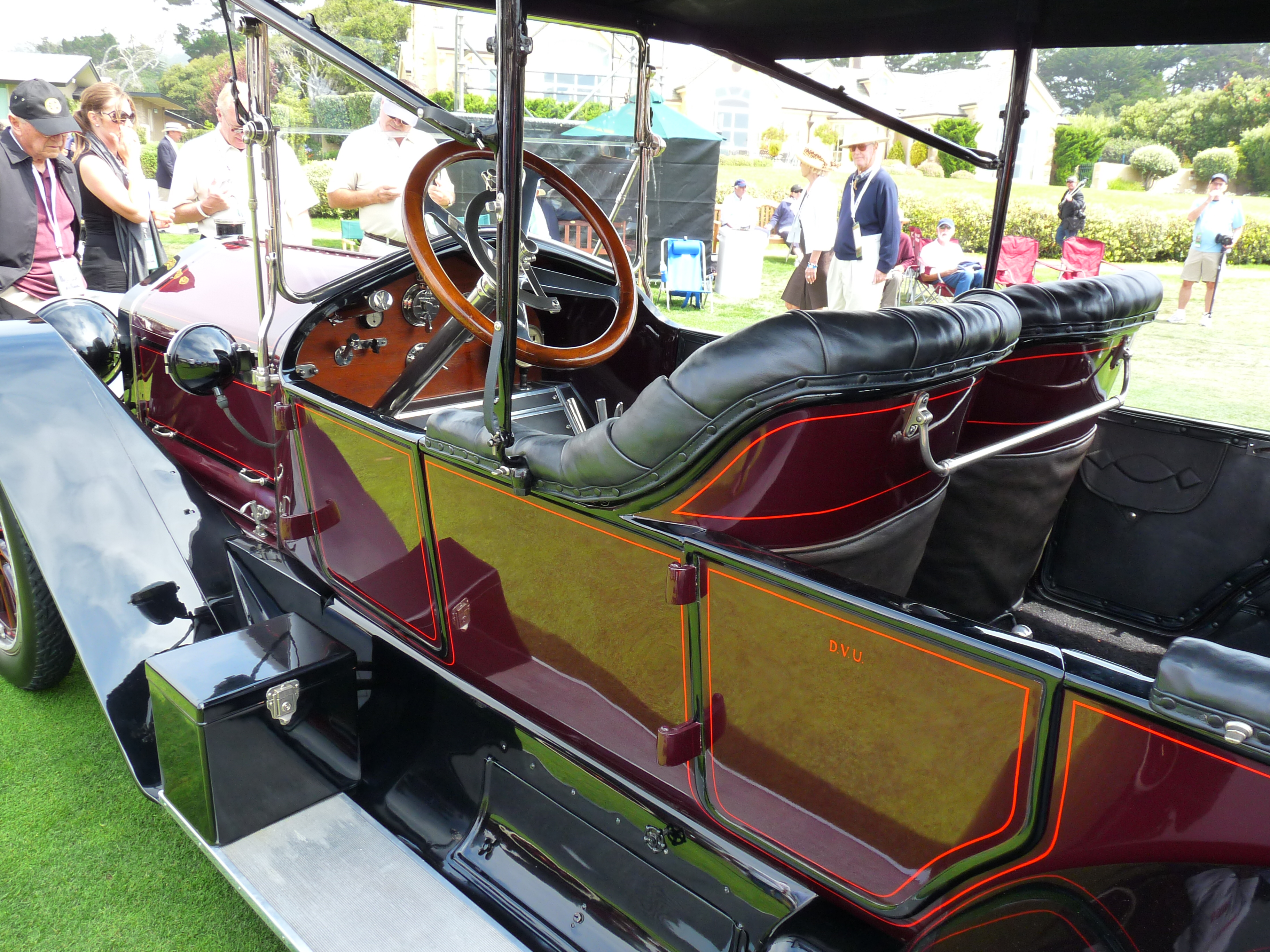 1913 National Series V-N3 Toy Tonneau